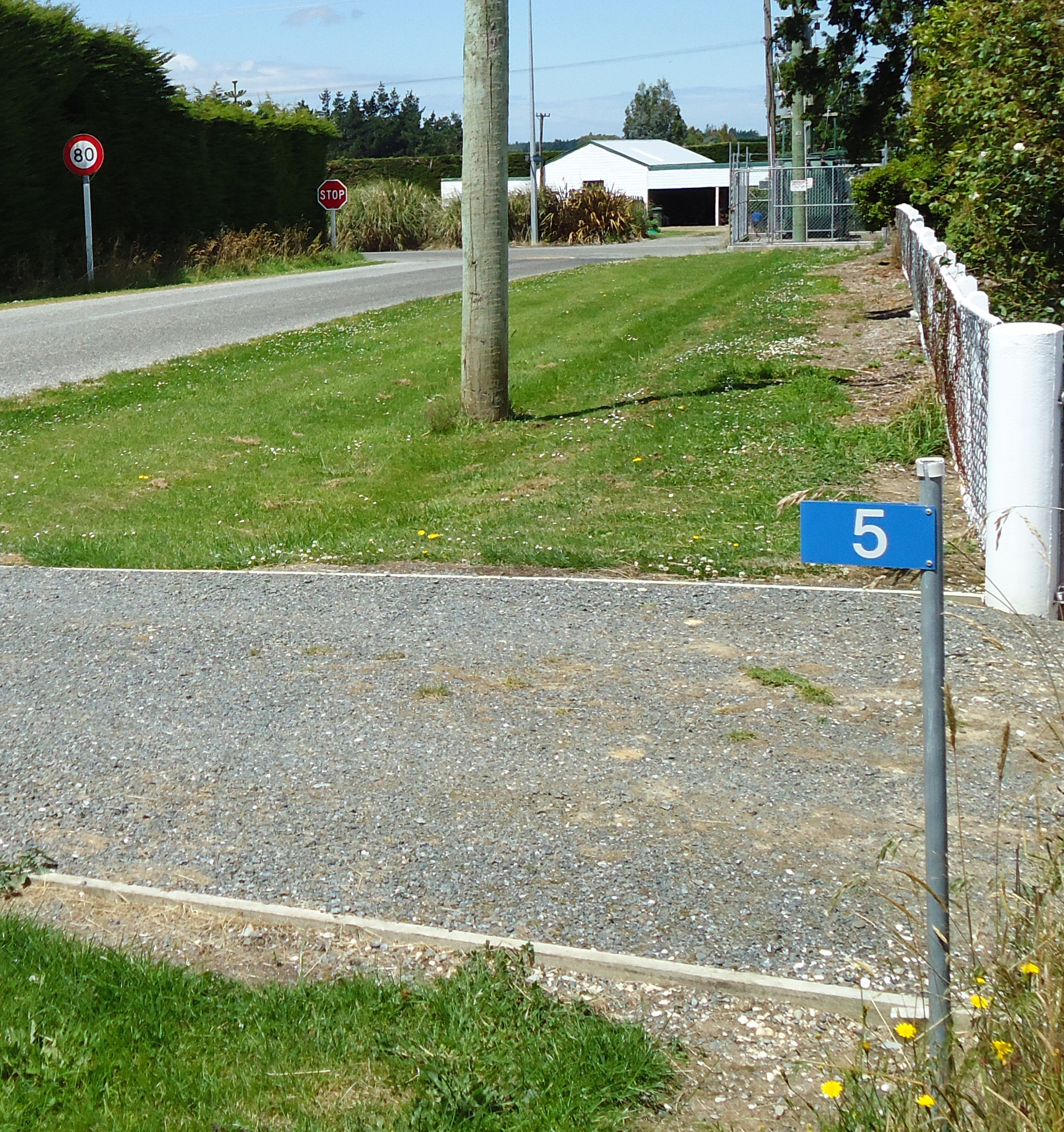 A RAPID number sign in New Zealand. RAPID number 5, therefore on the left hand side of the road (looking from the datum point) and approximately 50 metres from that point.